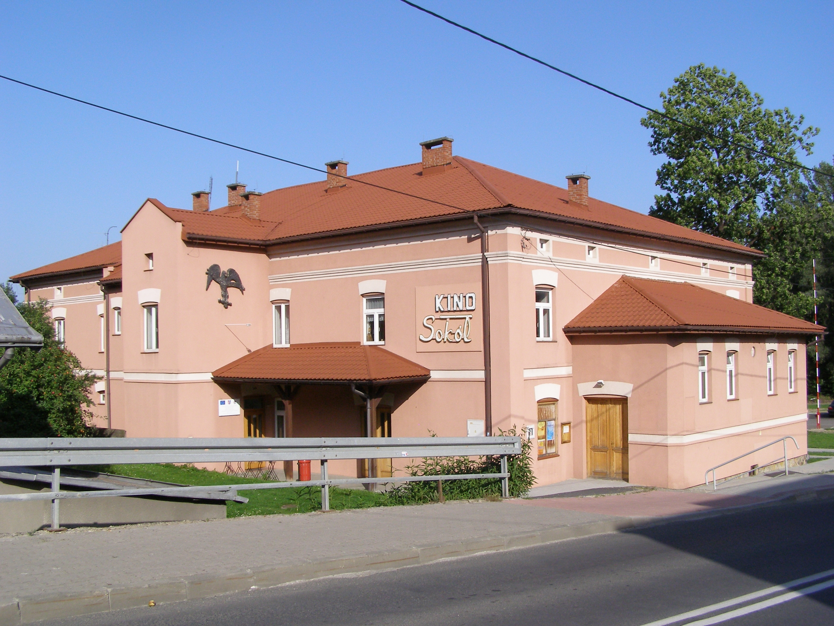 Rymanów - Sokół cinema